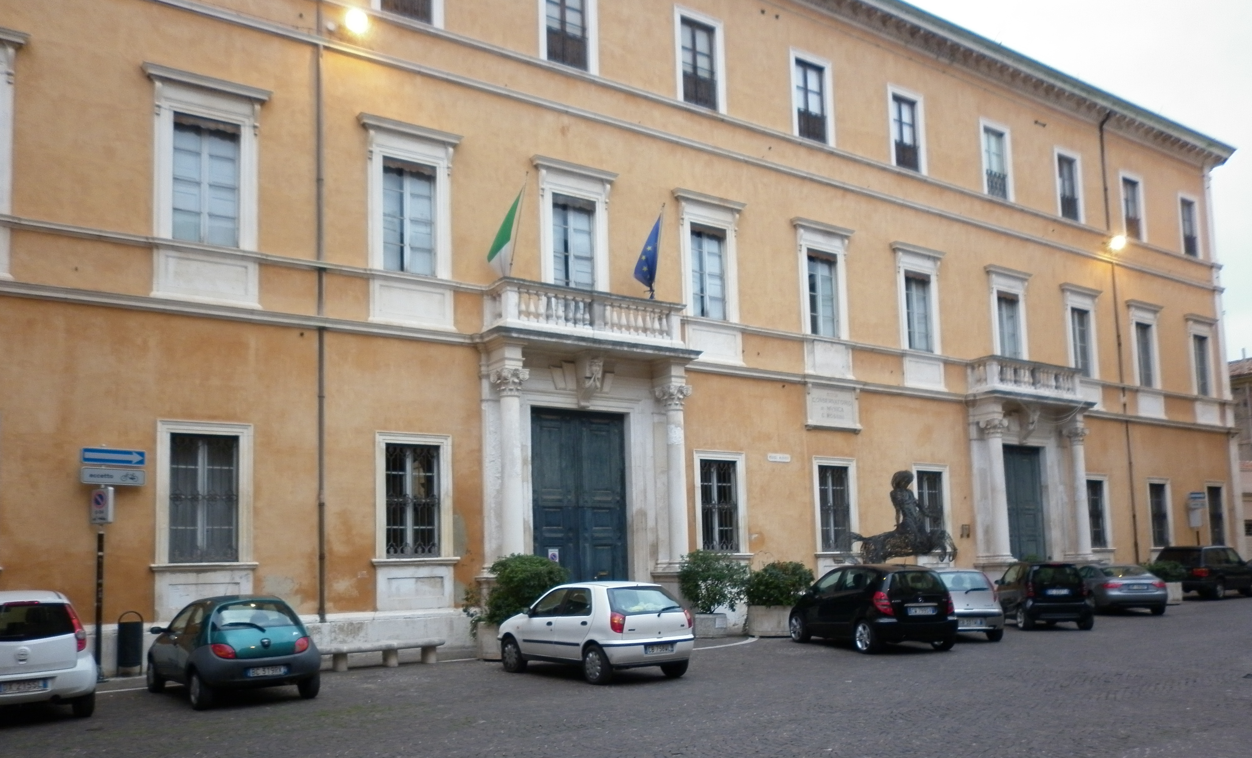 Palazzo Olivieri Machirelli